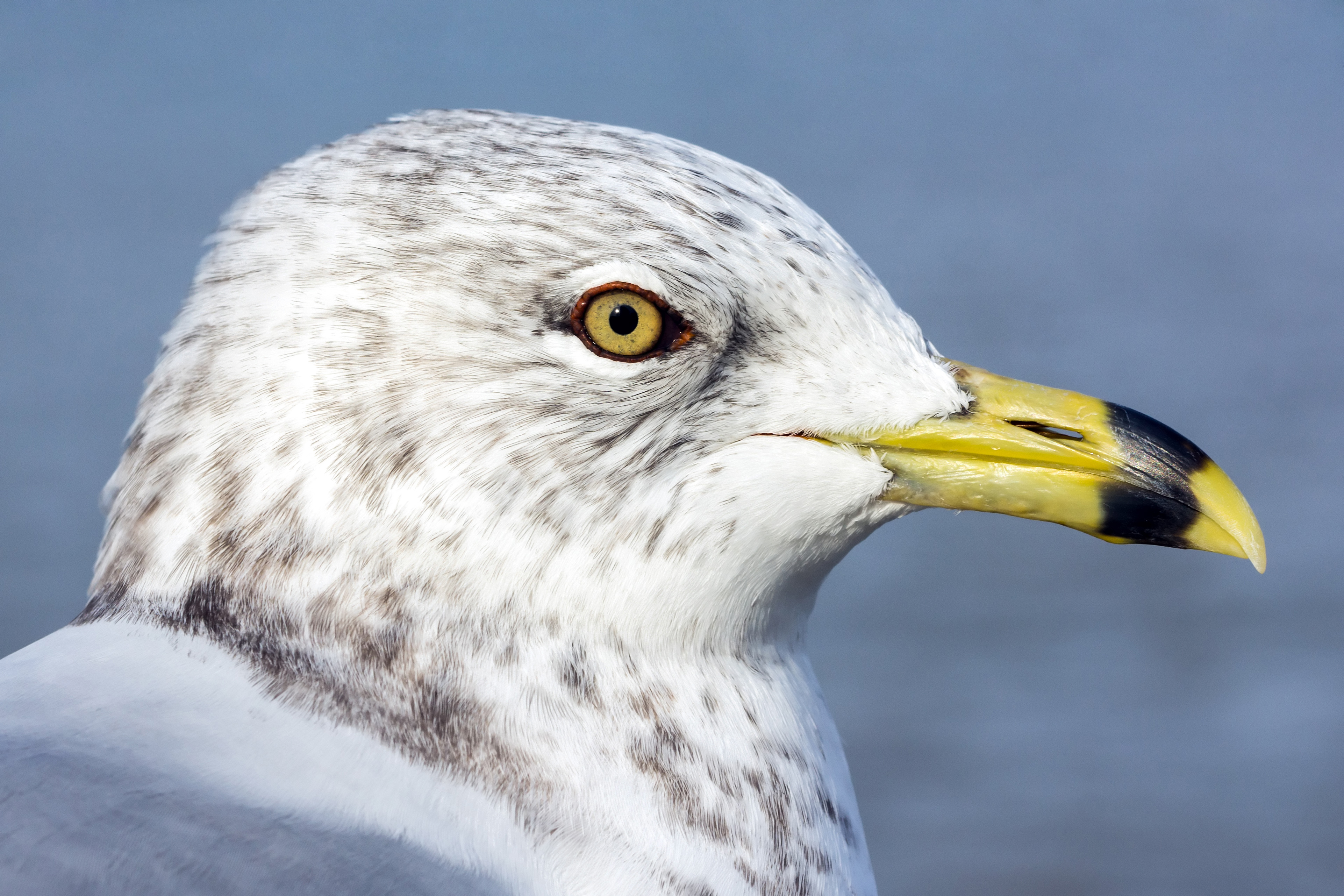 Portrait of Ring-billed gull (Larus delawarensis) in winter plumage, Windsor, Ontario, 2014-12-07